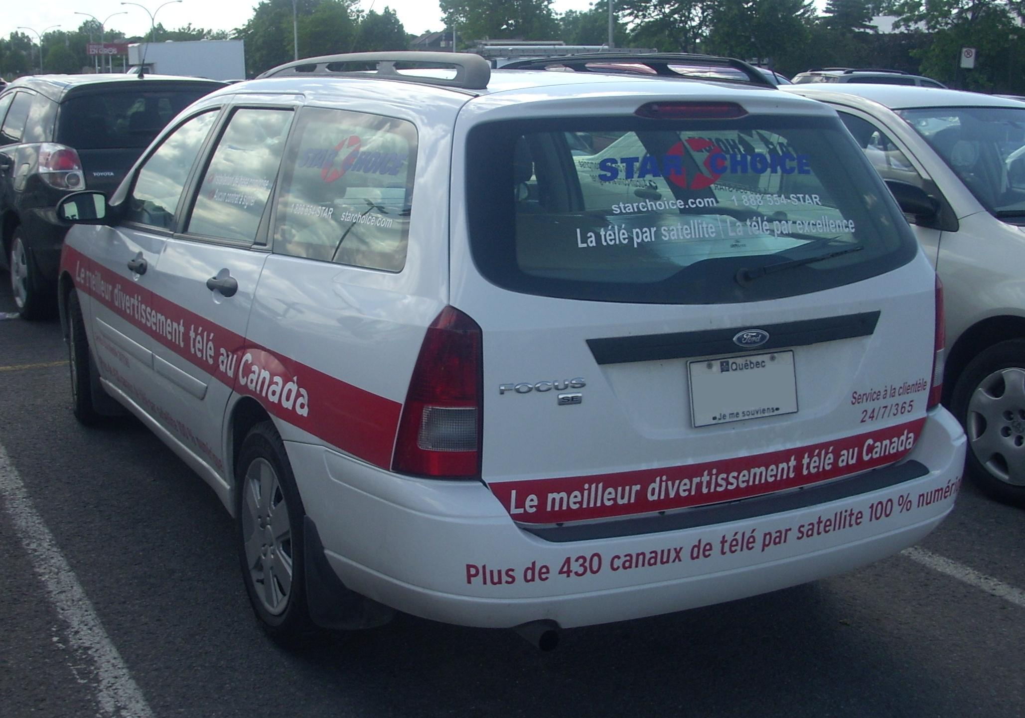 2005-2007 Ford Focus photographed in Montreal, Quebec, Canada.